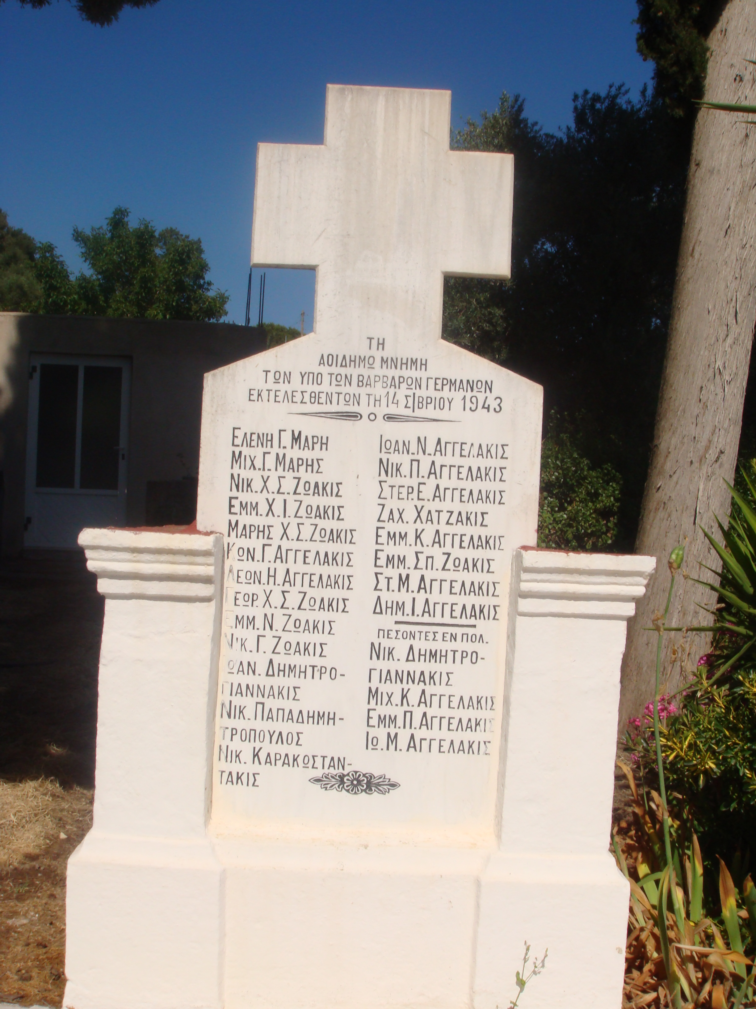 War memorial in Krevatas, Dimos Viannou, Herakleion Prefecture.